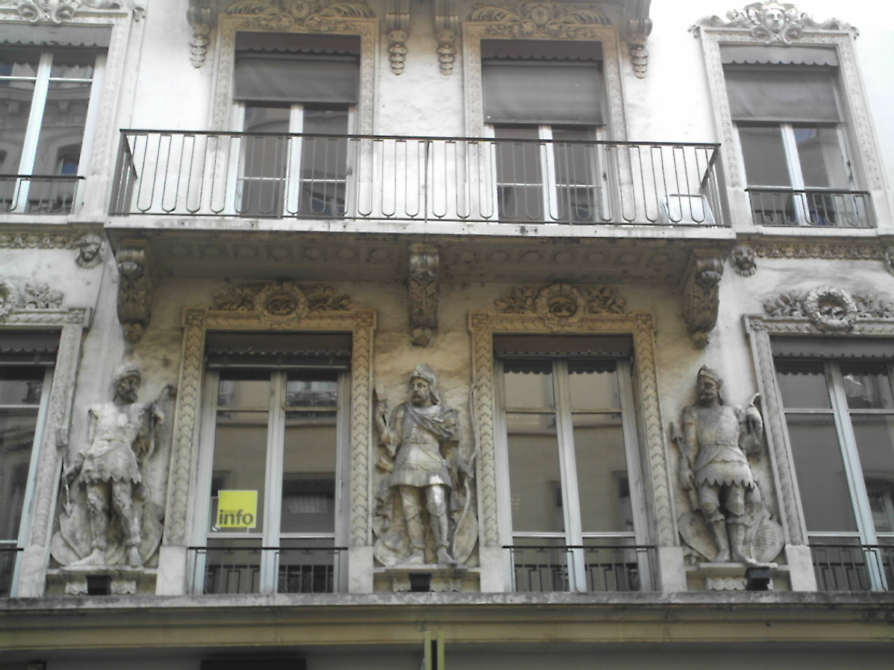 archer